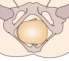 The left occipito-anterior variant of cephalic presentation